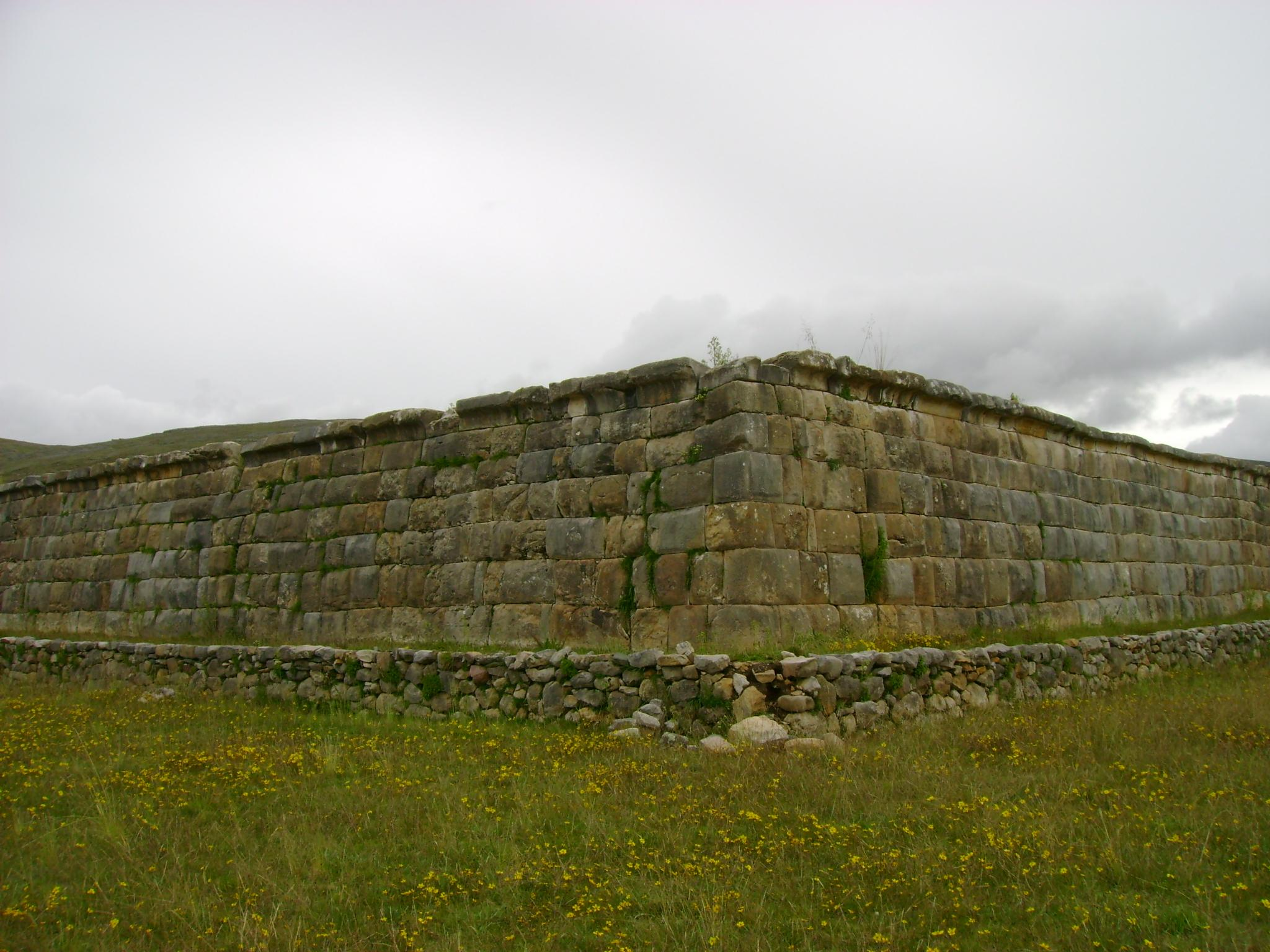 View Ushno.